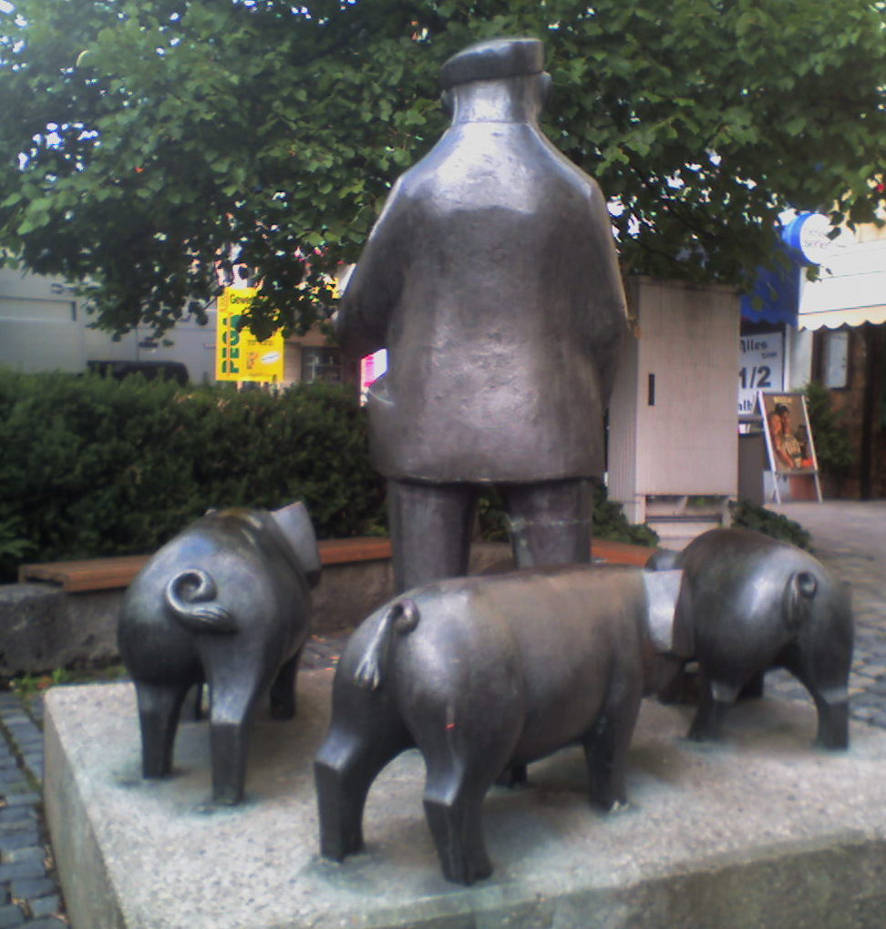 Monument of the "pig herder" in Pegnitz (Germany)